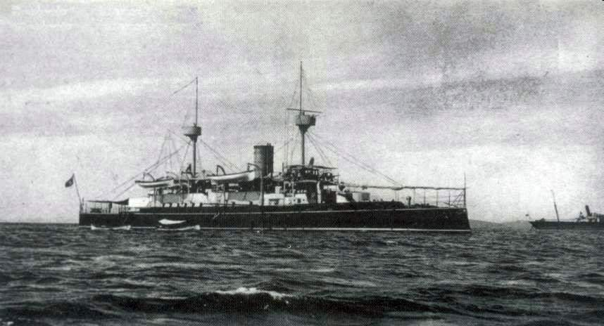 Brazilian coastal defence ship Floriano, launched 1899.